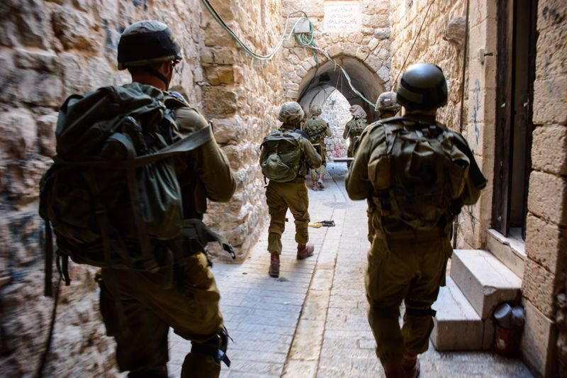 On the night of June 12, three Israeli teenagers suddenly went missing in Judea and Samaria. Our forces are relentlessly searching for them, operating under the presumption that they were kidnapped by Palestinian terrorists. These exclusive photos show the efforts of the IDF's Nahal Brigade in the Hebron area.